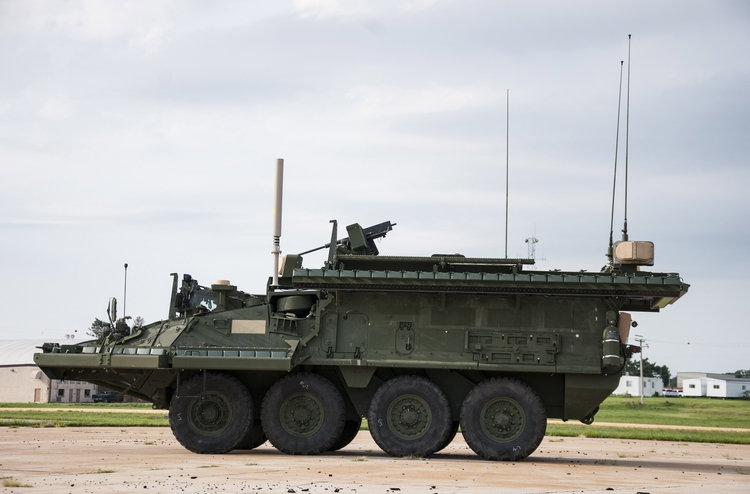 Picture of Iron Curtain active protection system on Stryker Army vehicle. Picture courtesy of US Army